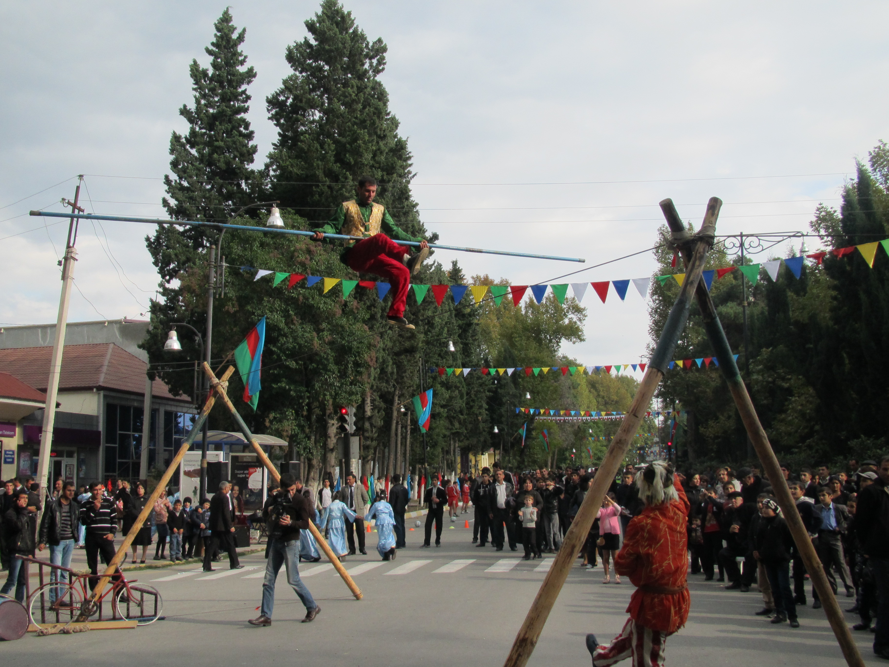 Pomegranate Festival is an annual cultural festival that is held in Goychay, Azerbaijan. Acrobat's performance at the Pomegranate Festival